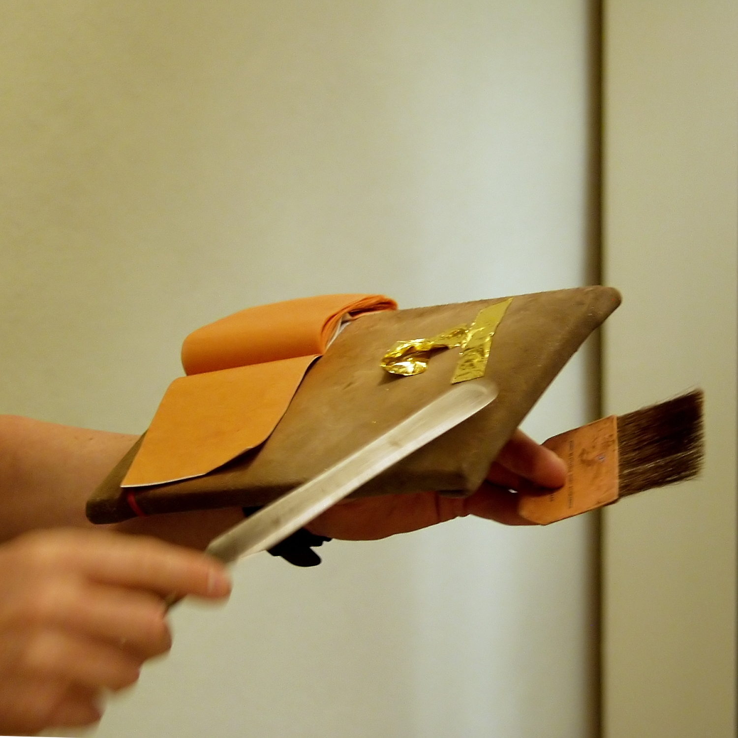 Gilder at work on a picture frame.